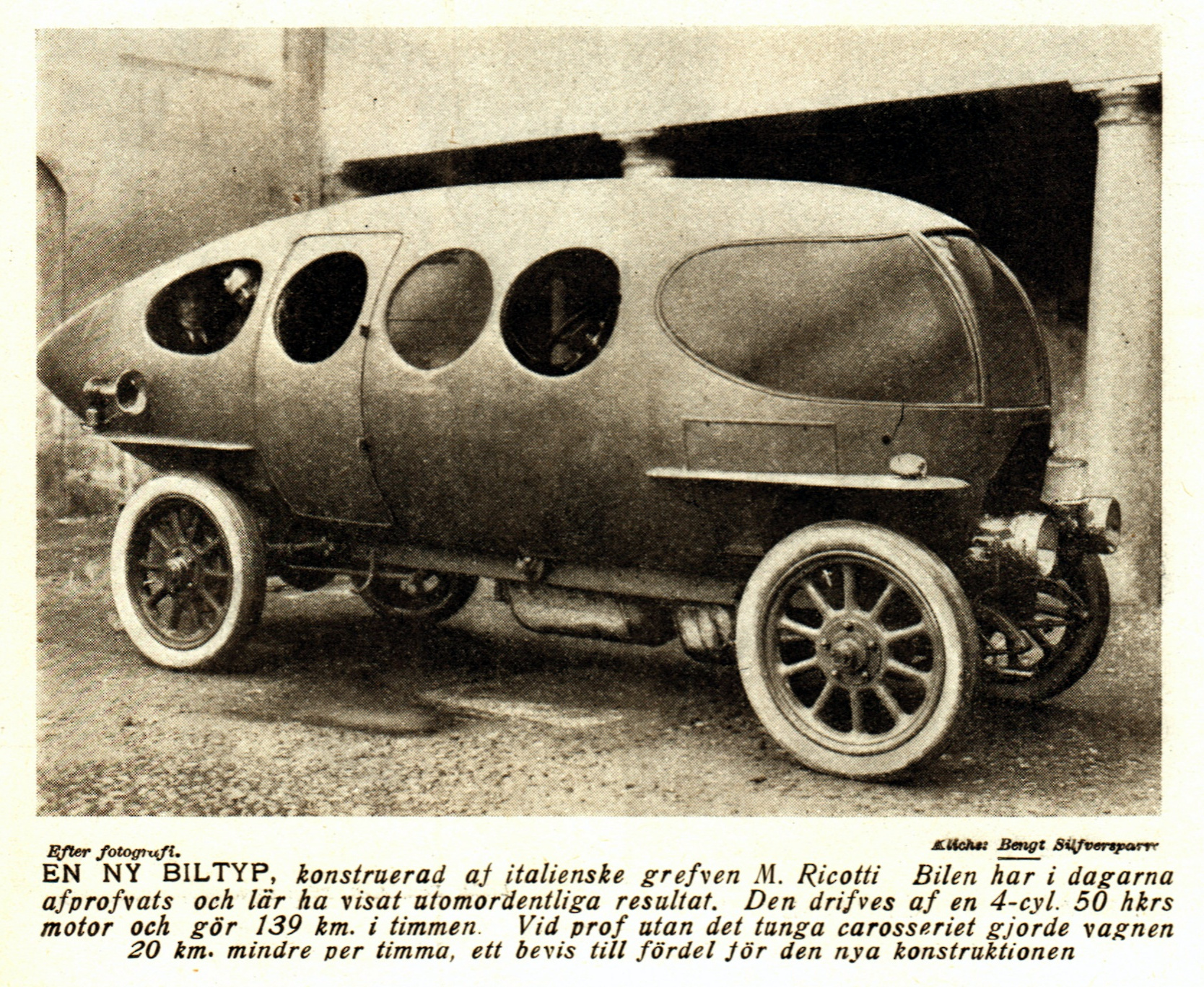 A new type of automobile, designed by the Italian count M. Ricotti. The car has been tested in recent days and has shown extraordinary results. It is powered by a 4 cylinder 50 horsepower engine and makes 139 km per hour. In tests without the heavy chassis the car made 20 km less per hour, a proof of the advantage of the new design.